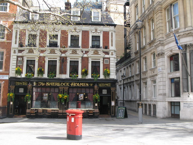 The Sherlock Holmes, Northumberland Avenue, WC2. Shows the location of 1295532.